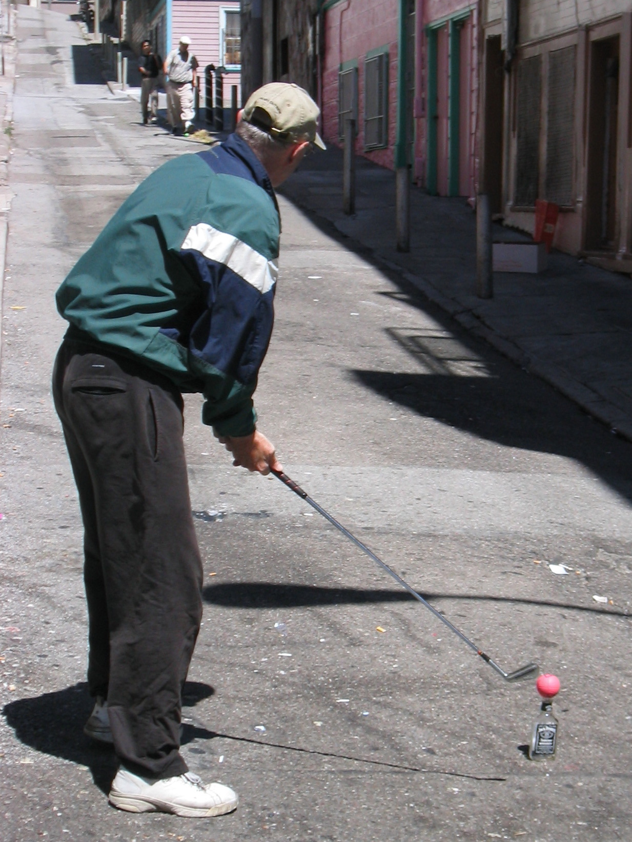 A regular from The Saloon decides to join us for a hole. Note the innovative selection of tee. [Photo by SF Slim - (cc)2005 - Some Rights Reserved]